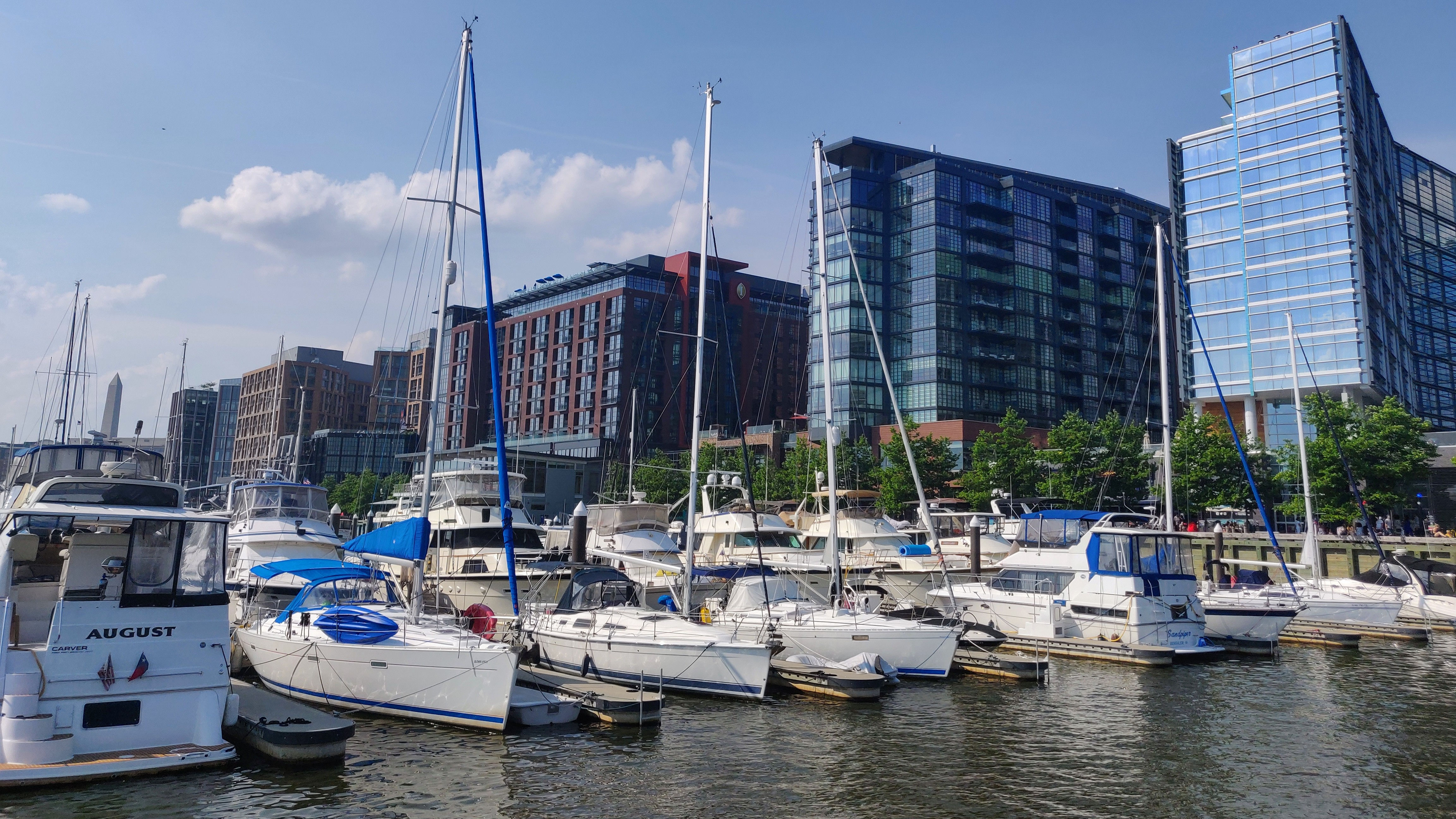 The marina at the Wharf, a development in southwest Washington, D.C.